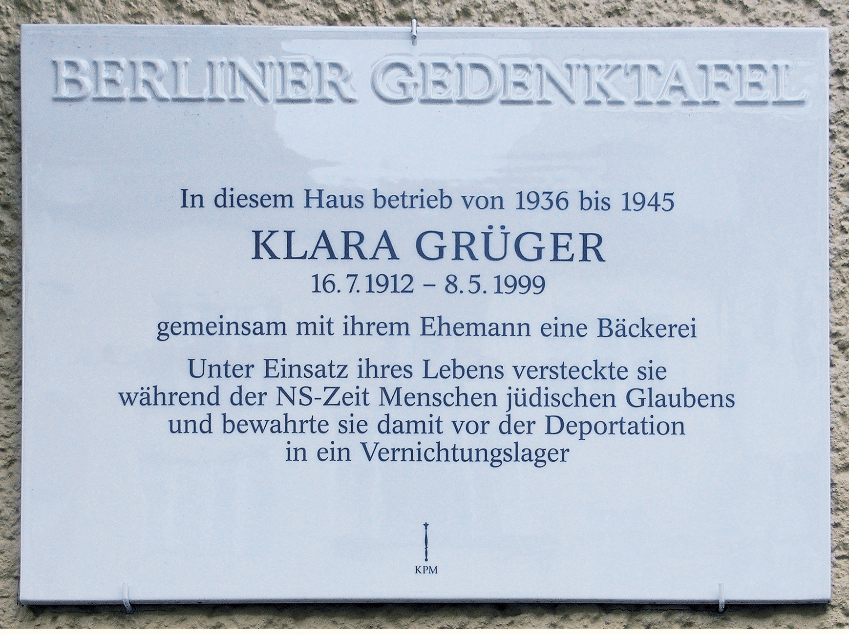 Berlin memorial plaque, Klara Grüger, Droysenstraße 10a, Berlin-Charlottenburg, Germany